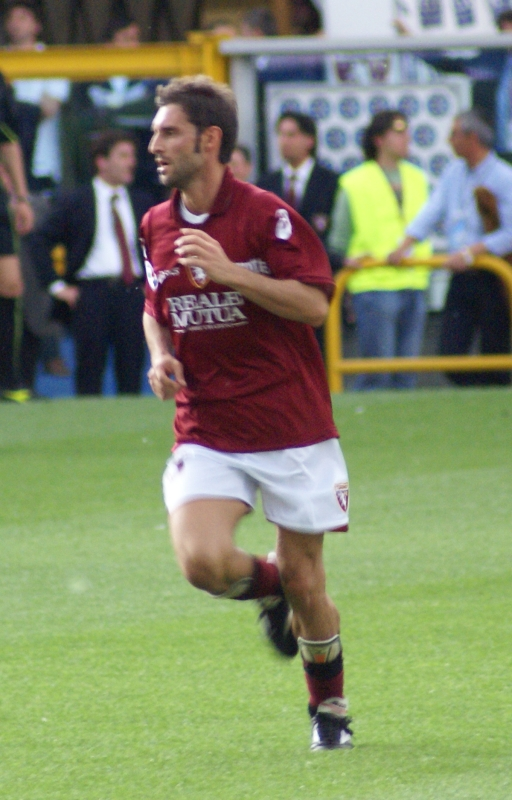 Italian football (soccer) player Andrea Ardito